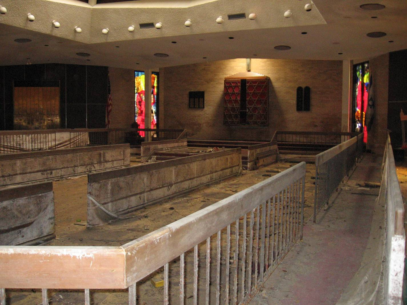 Interior of the Beth Israel Congregation sanctuary, Lakeview section of New Orleans, months after the Hurricane Katrina levee failure disaster.